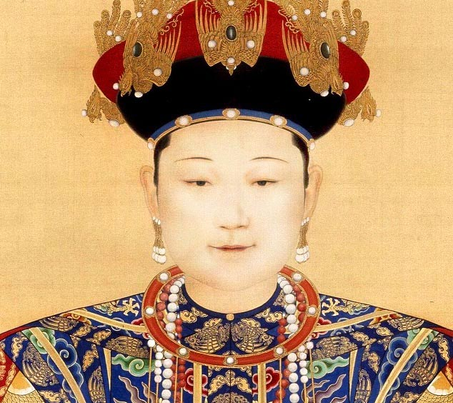 Empress Hui Zhang, the second Empress Consort of the Qing Dynasty Shunzhi Emperor of China.